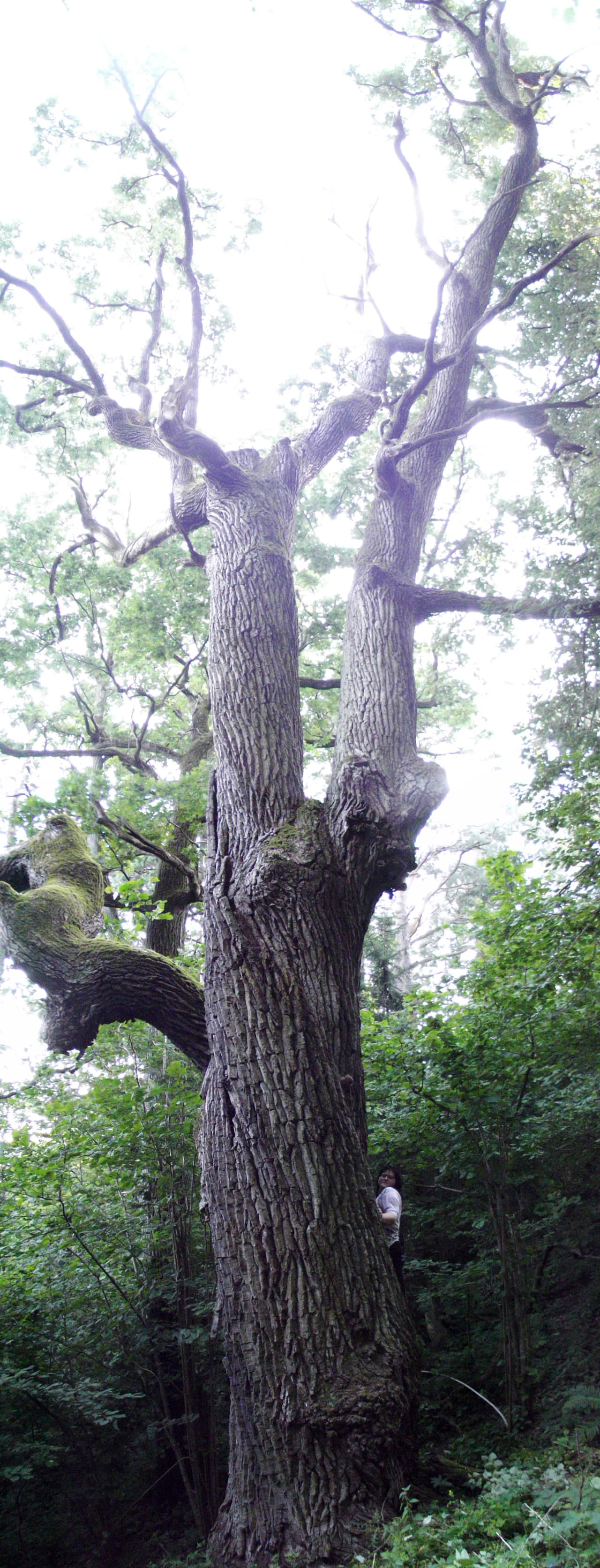 Gastilionių oak by Kaunas Reservoir, Kaišiadorys district, Lithuania